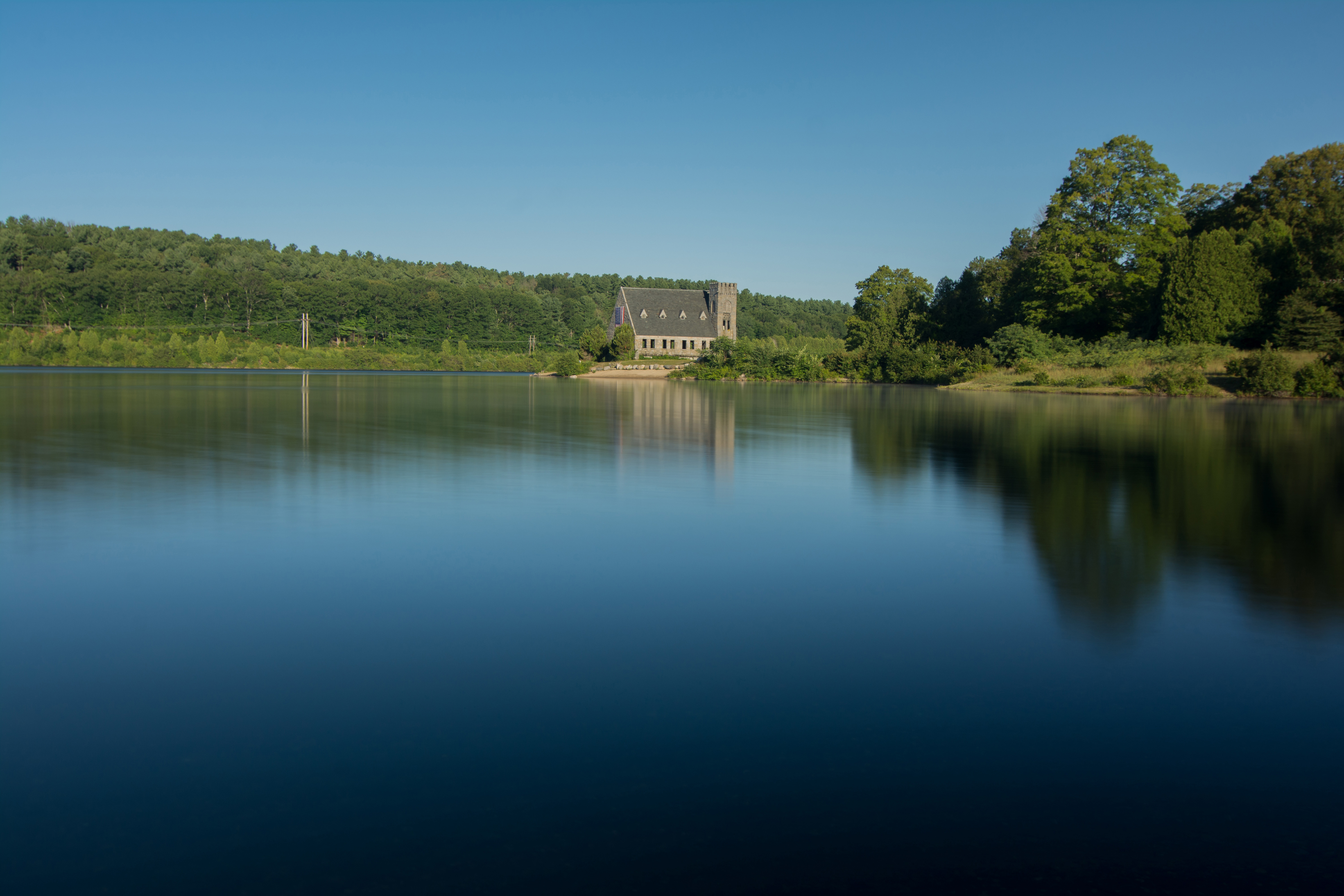 Long exposure of the Old Stone Church from the junction of Route 12 and 140. Photo courtesy of David Wornham.